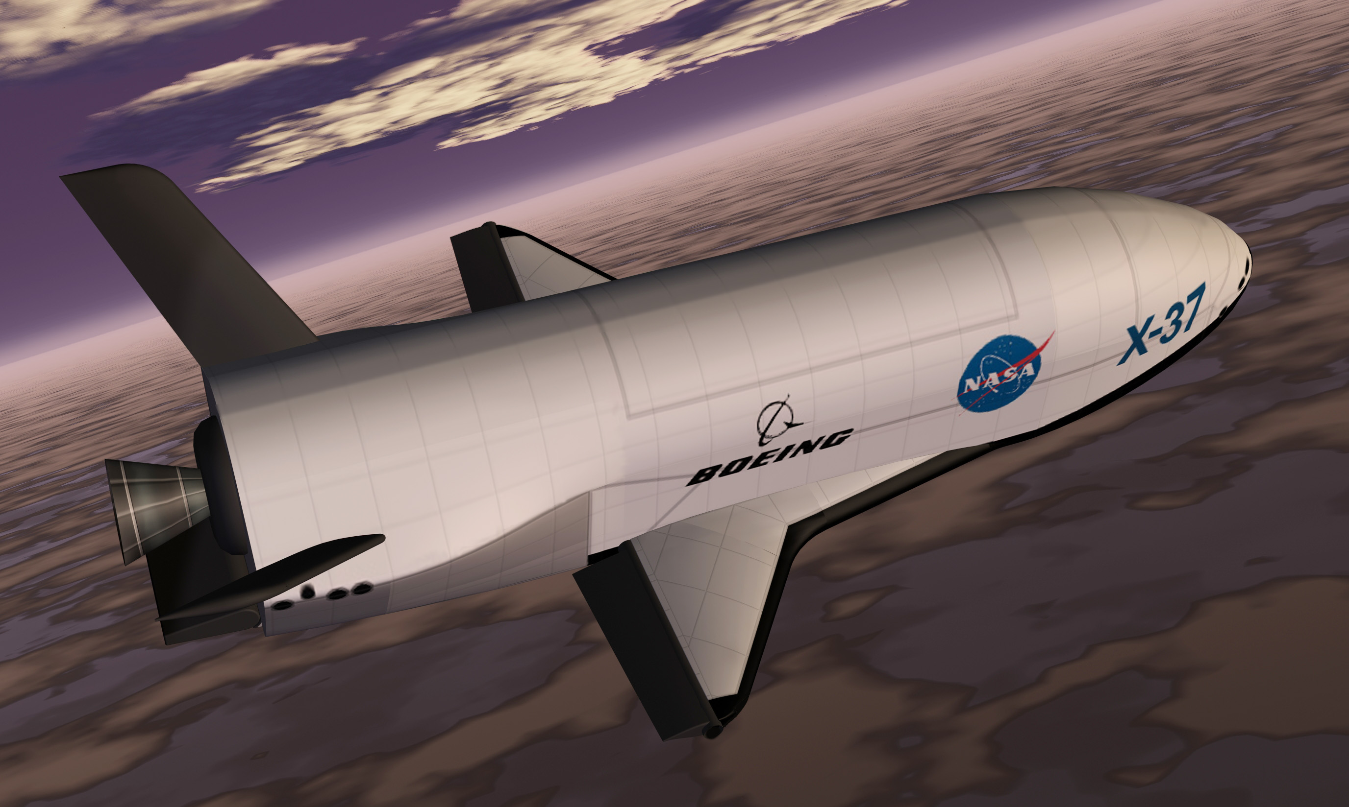 An artist's conception of the X-37 Advanced Technology Demonstrator as it glides to a landing on earth. Its design features a rounded fuselage topped by an experiment bay; short, double delta wings (like those of the Shuttle orbiter); and two stabilizers (that form a V-shape) at the rear of the vehicle.